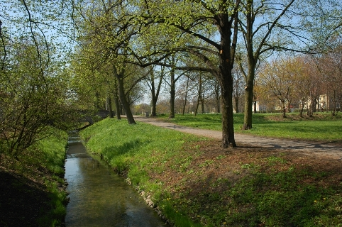 View on the Ostropka river in Gliwice, Upper Silesia, Poland